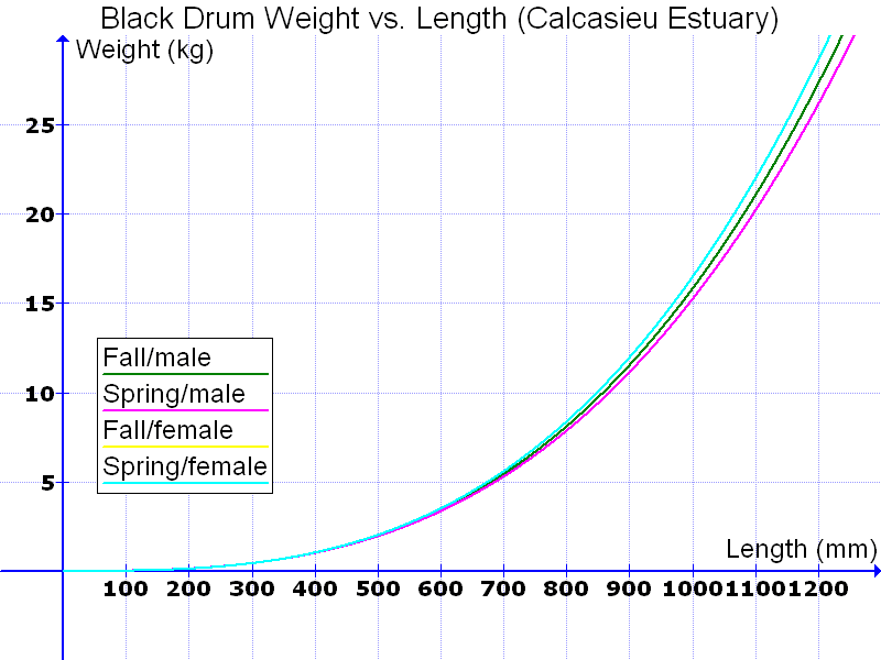 Plot of weight (kg) vs. length (mm) for Black Drum fish, based on converting equations from Jenkins (2004) Fish Bioindicators of Ecosystem Condition at the Calcasieu Estuary, Louisiana, National Wetlands Research Center, USGS, Lafayette, Open-File Report 2004-1323